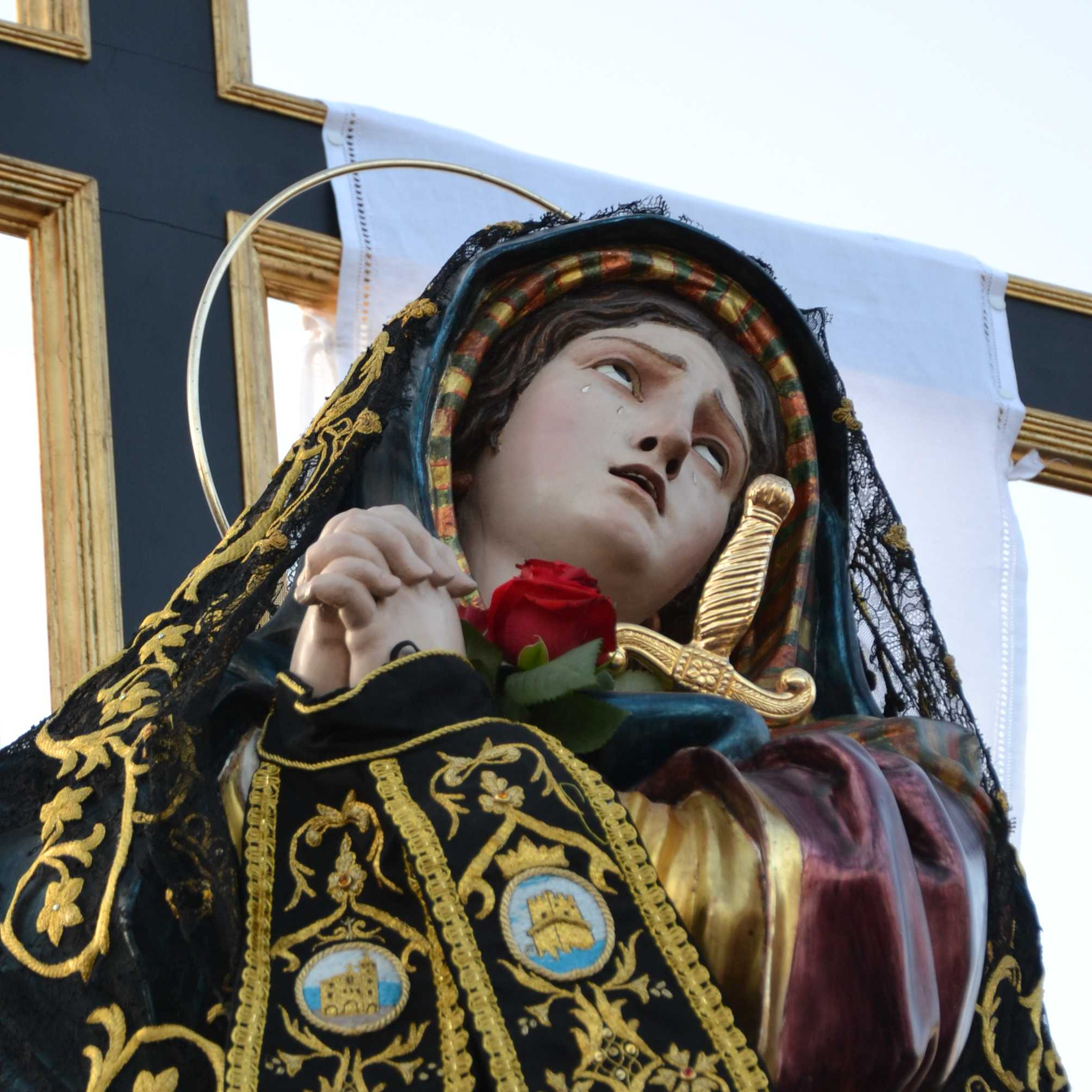 Sorrowful Mother, Pozzallo